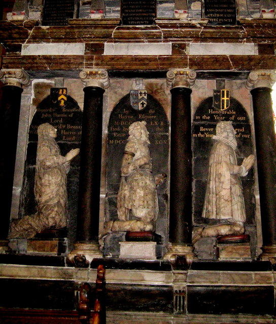 Memorial (detail) - Lifton church The memorial is dedicated to the Harrises of Hayne and dated 1590, 1618 and 1631. They were an old Royalist family. Further information: - Cached. Escutcheons left to right: (Source:Vivian, Lt.Col. J.L., (Ed.) The Visitations of the County of Devon: Comprising the Heralds' Visitations of 1531, 1564 & 1620, Exeter, 1895, p.449) Harris (Sable, three crescents argent a bordure of the last) impaling Wyndham (Azure, a chevron between three lion's heads erased or), for John Harris (d.1657) of Hayne and his first wife Florence Wyndham (d.1630/1), a daughter of Sir John Wyndham of Orchard Wyndham in Somerset, without progeny. Harris impaling Daviles (Argent, a chevron embattled erminois between three fleurs-de-lys azure), for Arthur Harris (1561-1628) of Hayne and his wife Margaret Daviles, daughter and sole heiress of John Daviles of Marland in Devon. He was the father of John Harris (d.1657) of Hayne. Harris impaling Mohun (Or, a cross engrailed sable), for John Harris (d.1657) of Hayne and his second wife Cordelia Mohun, a daughter of John Mohun, 1st Baron Mohun of Okehampton (1595-1641) Note: Shields incorrectly repainted